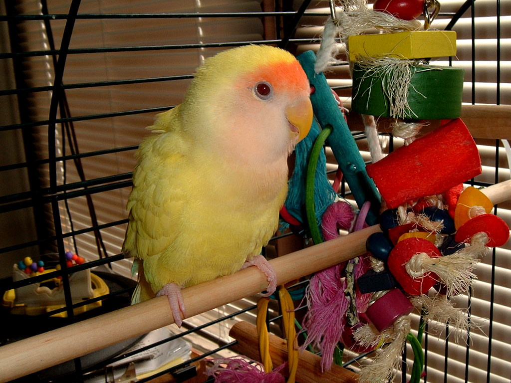 A pet Peach-faced Lovebird colour mutant (Agapornis roseicollis) on a perch in a cage with toys.